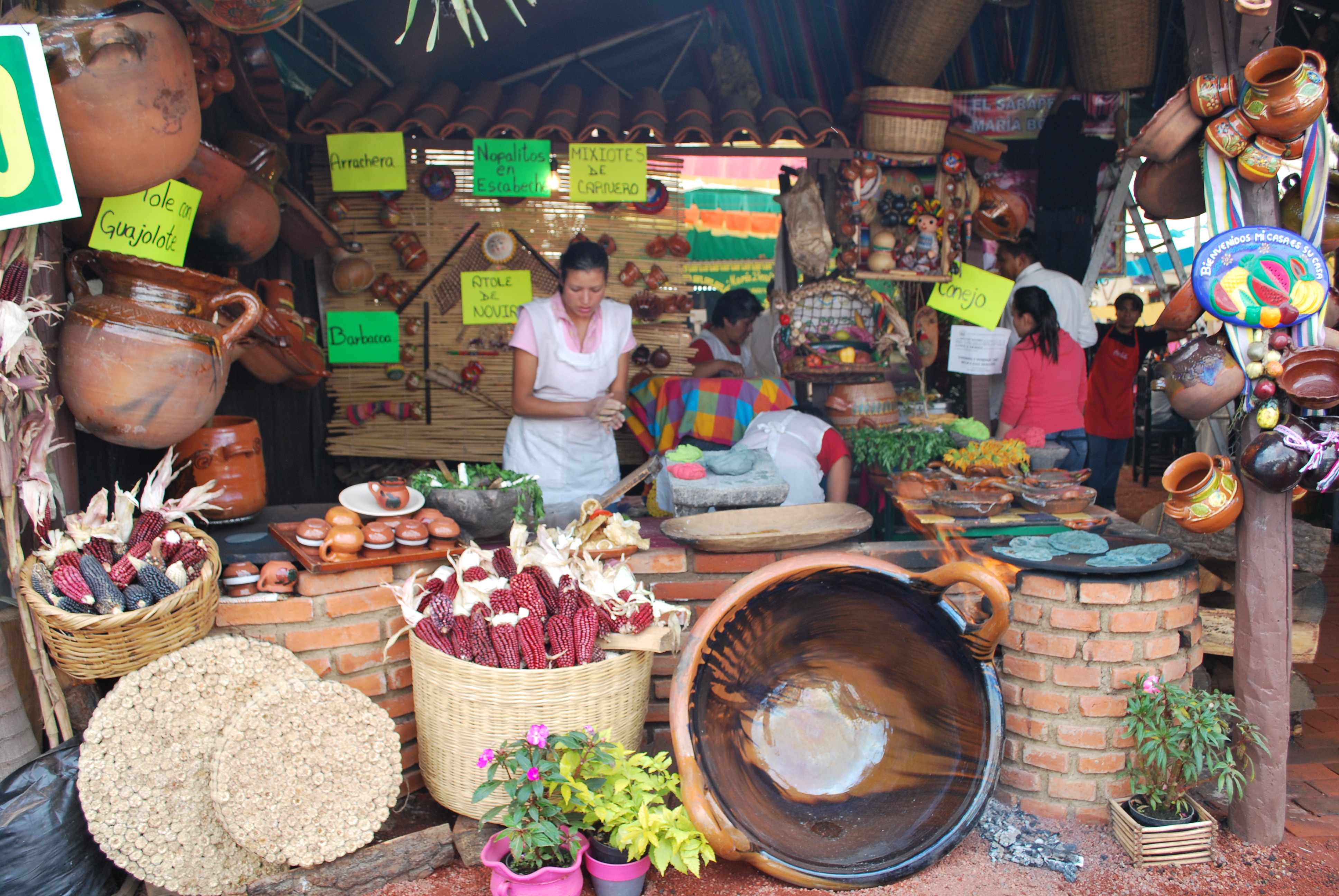 Woman making tortillas at one of the mole food stands at the Feria de Mole in San Pedro Atocpan, DF